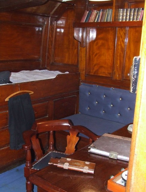 Captain Scott's Cabin The interior of his private cabin.